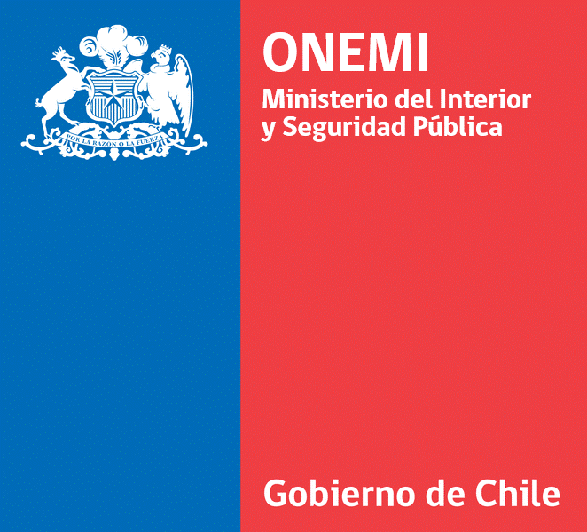 Current logo of the national emergency office interior ministry.